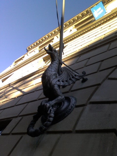 One of the "guard dragons" at the Liberal Arts and Policy building looks out over the building's southern entrance.